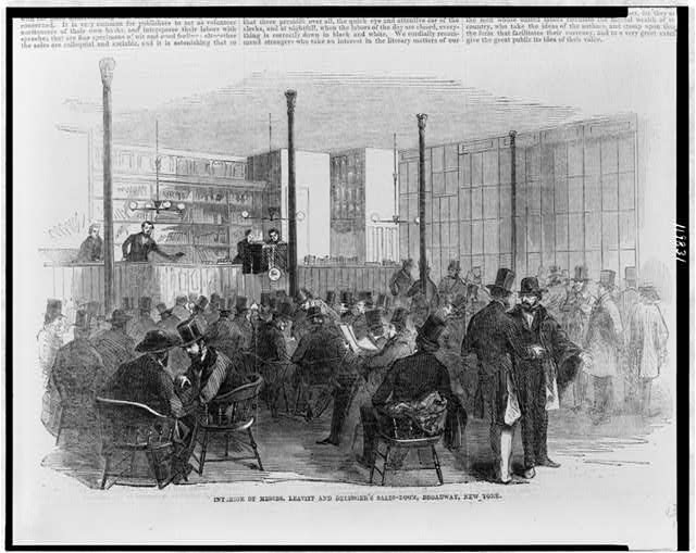 Interior of Mssrs. Leavitt & Delissier's Sales Room, Broadway, New York. Men at book sale of business run by George Ayres Leavitt, publisher and book seller, New York. Collection of the Library of Congress Prints and Photographs Division, Washington, D.C.